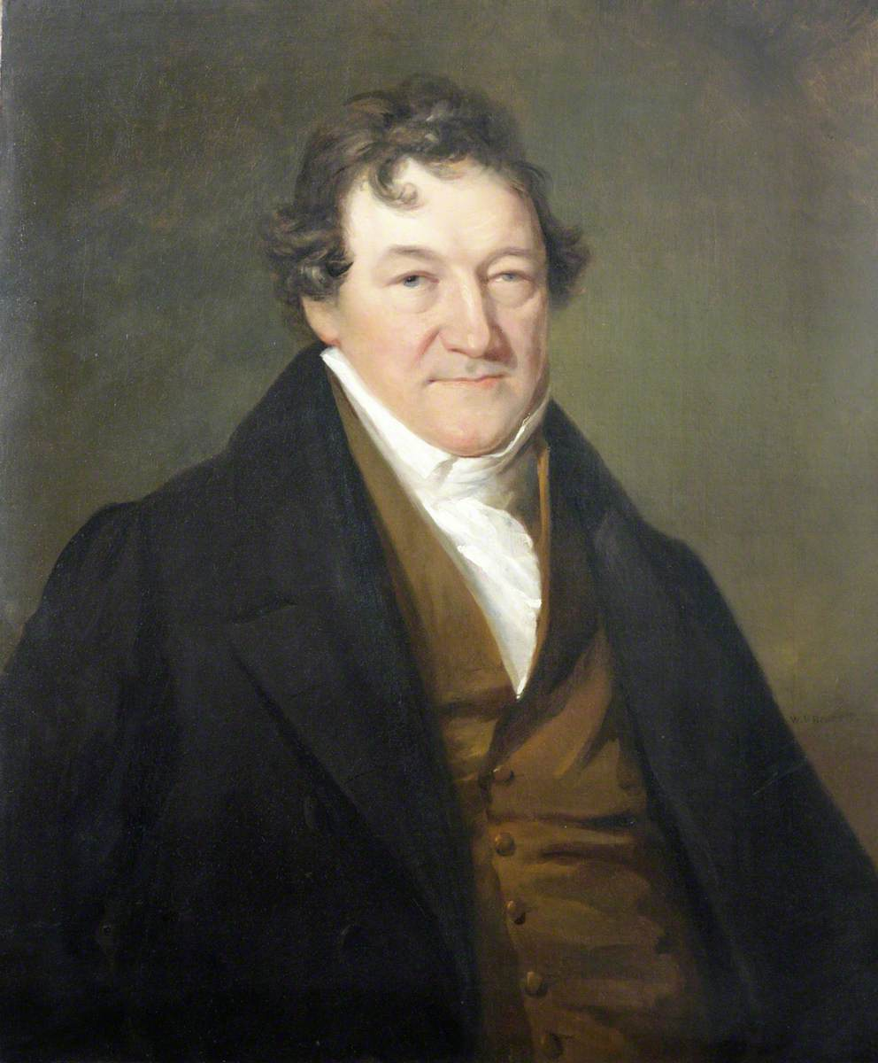 Bennett, William Mineard; Bartholomew Parr, Esq. (1713-1800), Surgeon (1741-1797); Royal Devon and Exeter Hospital.